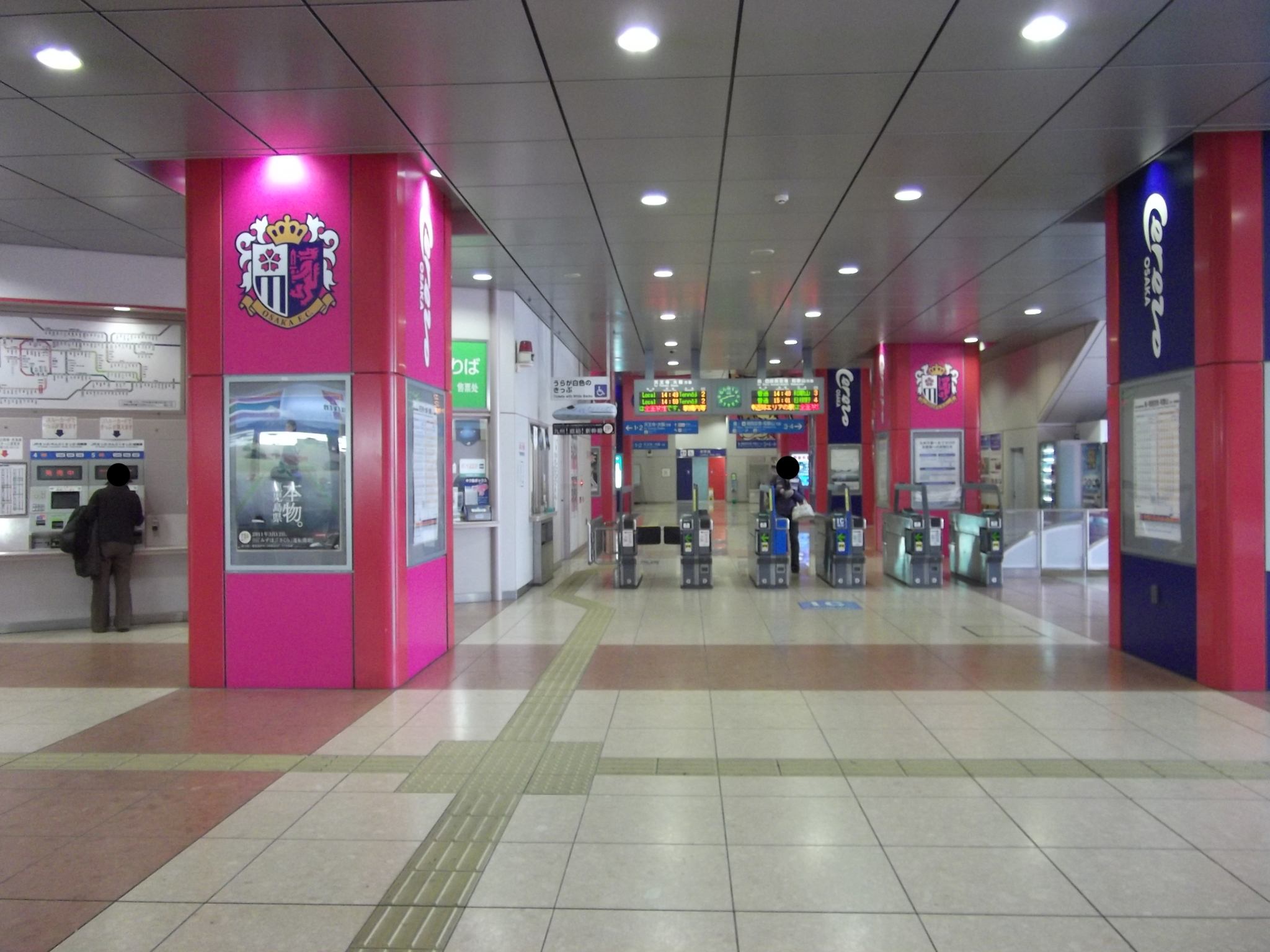 Ticket gates at Hanwa Line Tsurugaoka Station